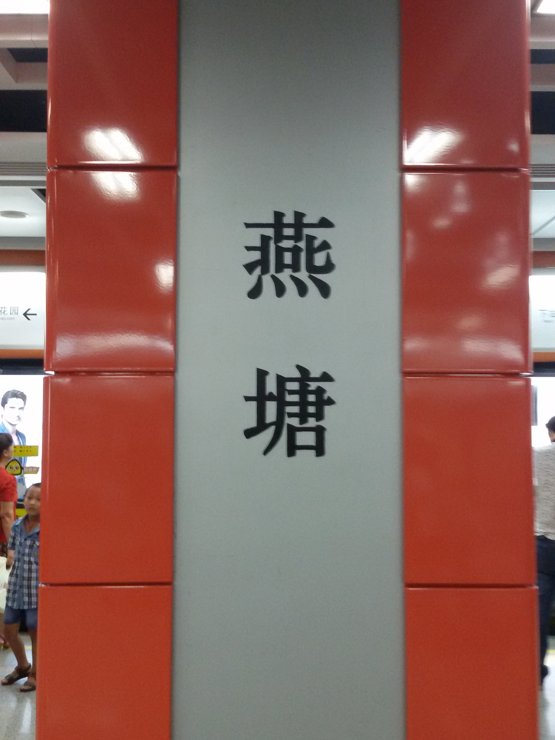 WORD on pillar for JinTong Station on Line 3 in Guangzhou Metro 粵語: 燕塘站嘅3號綫，柱上面啲字。